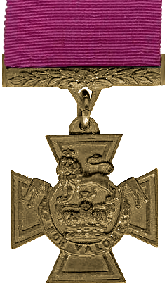 RCD Archives and Collection